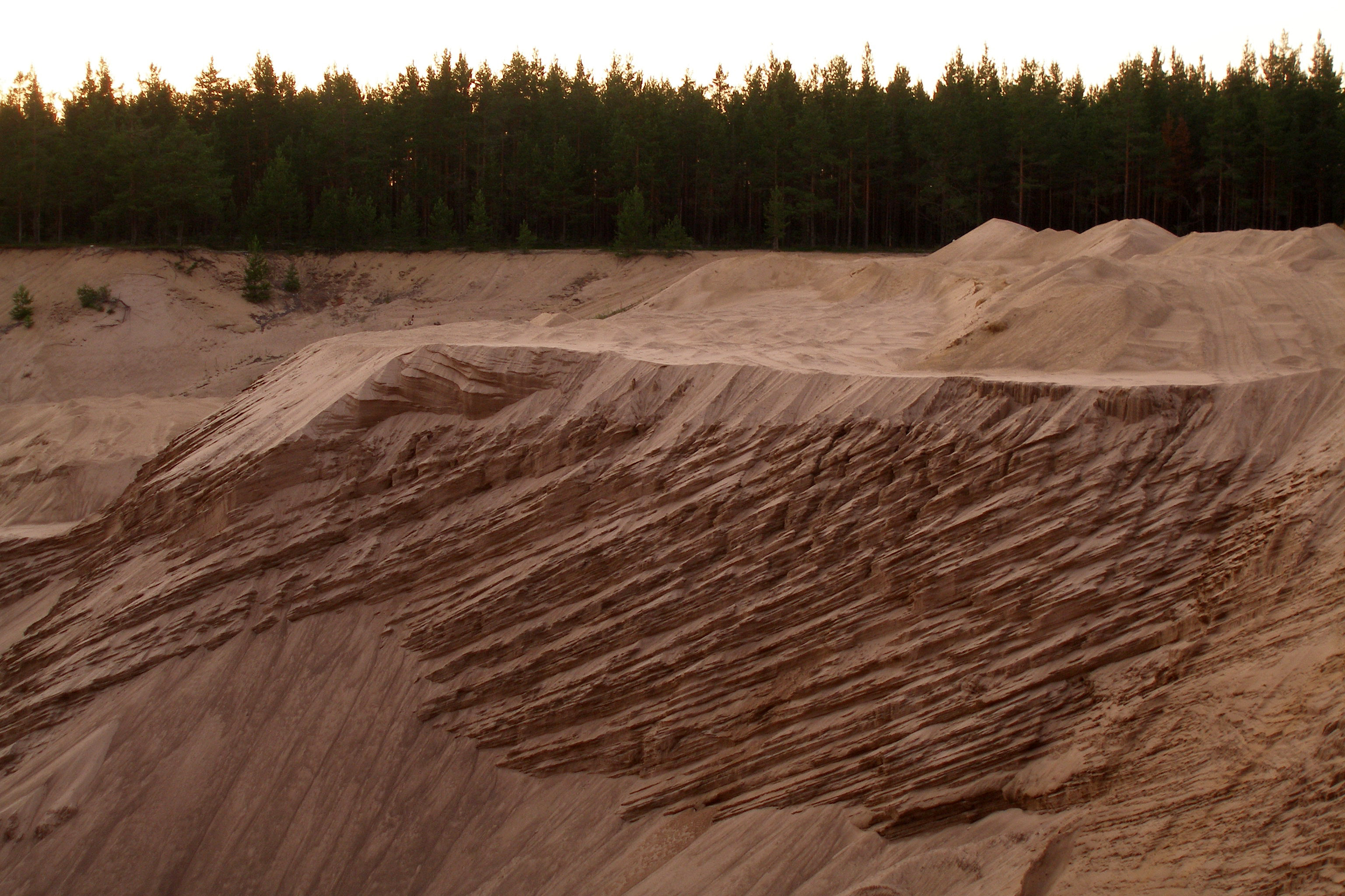 Glaciofluvial sands in Lahemaa, Estonia.